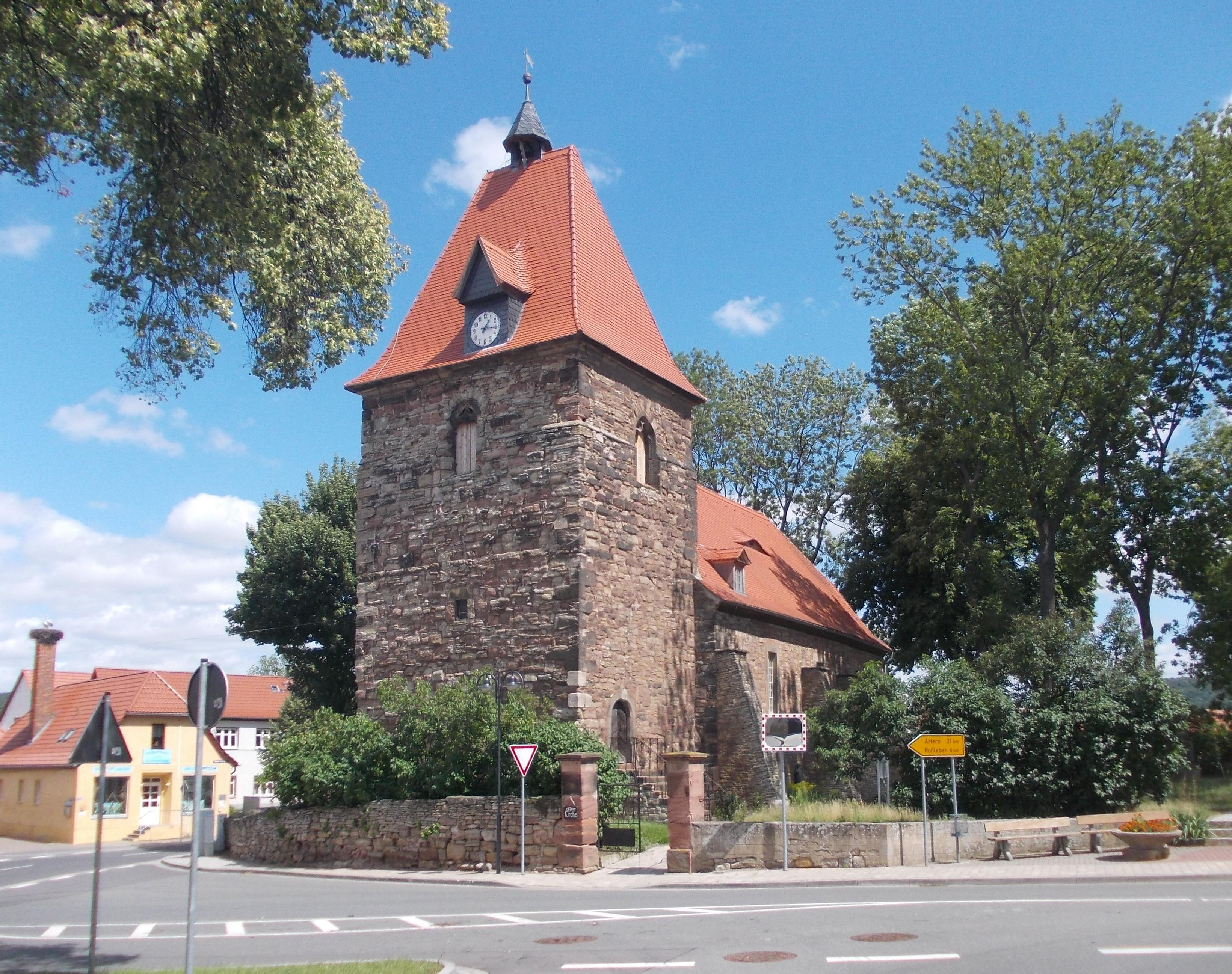 St. Martin's Church in Memleben (Kaiserpfalz, district: Burgenlandkreis, Saxony-Anhalt)